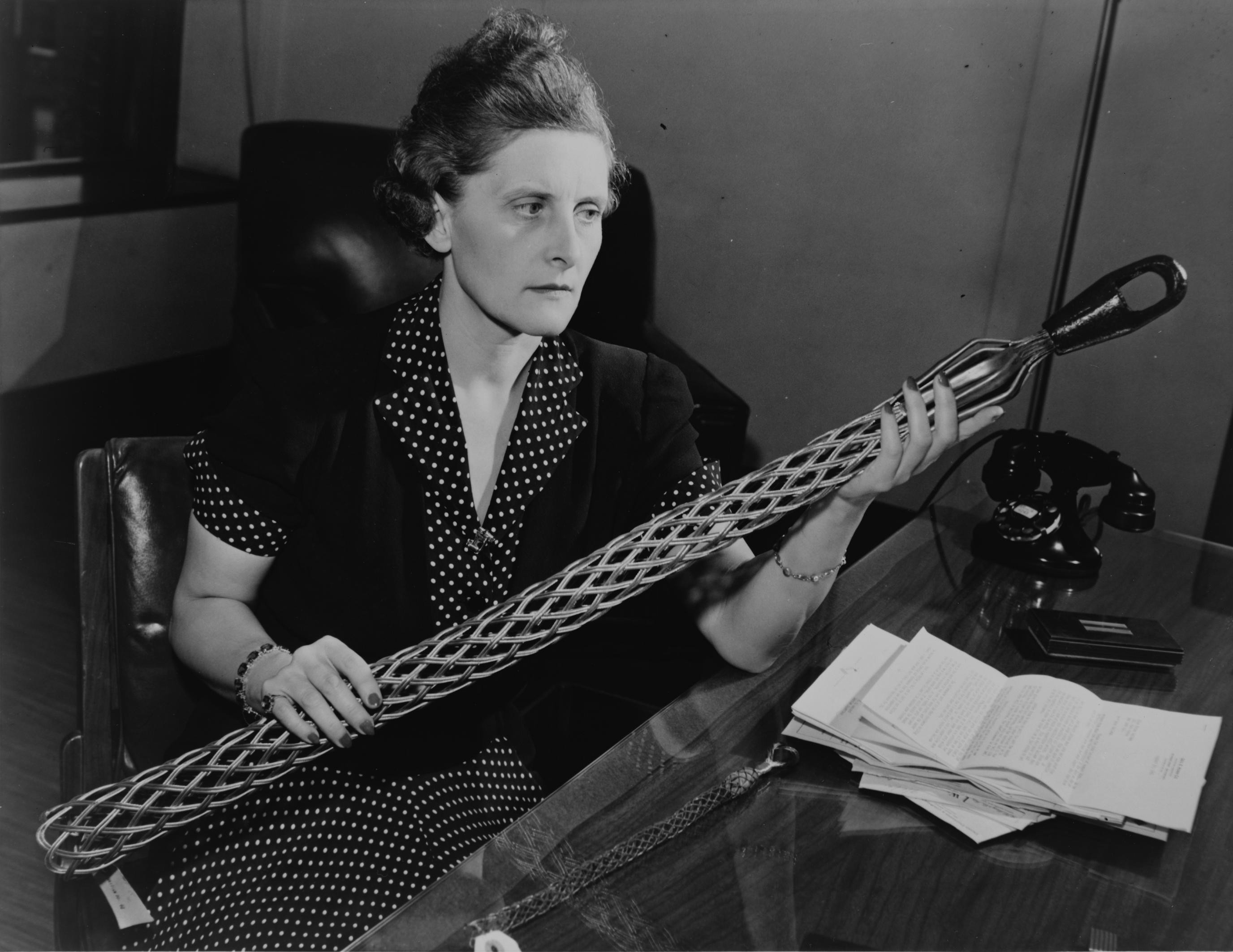 Vivien Kellems, American industrialist and tax protester